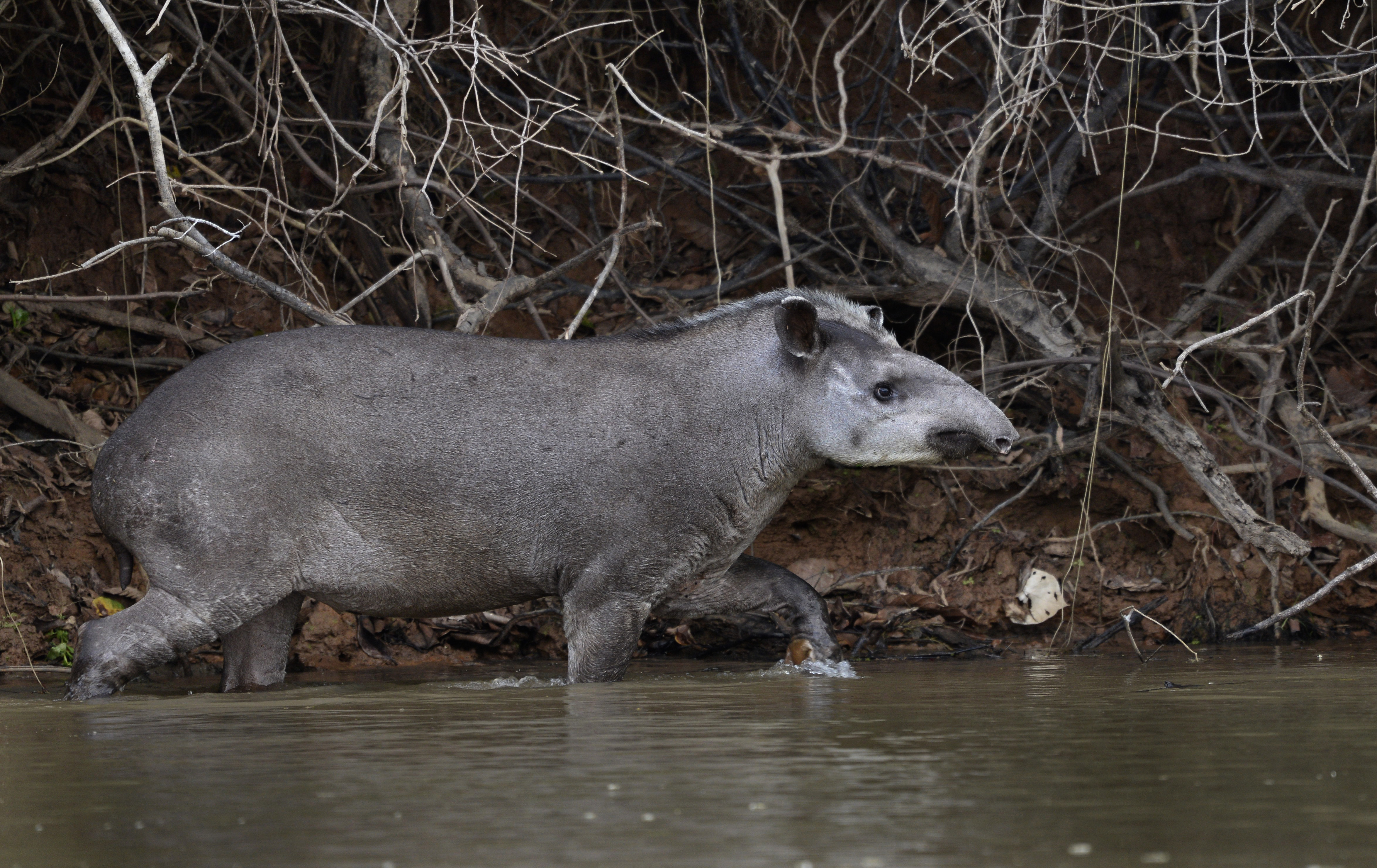 20151105 Pantanal do norte. Rio Piquiriri. Encontraro um anta a noite.The elusive tapir walks on the river in northern Pantanal.Foto: Jan Fleischmann